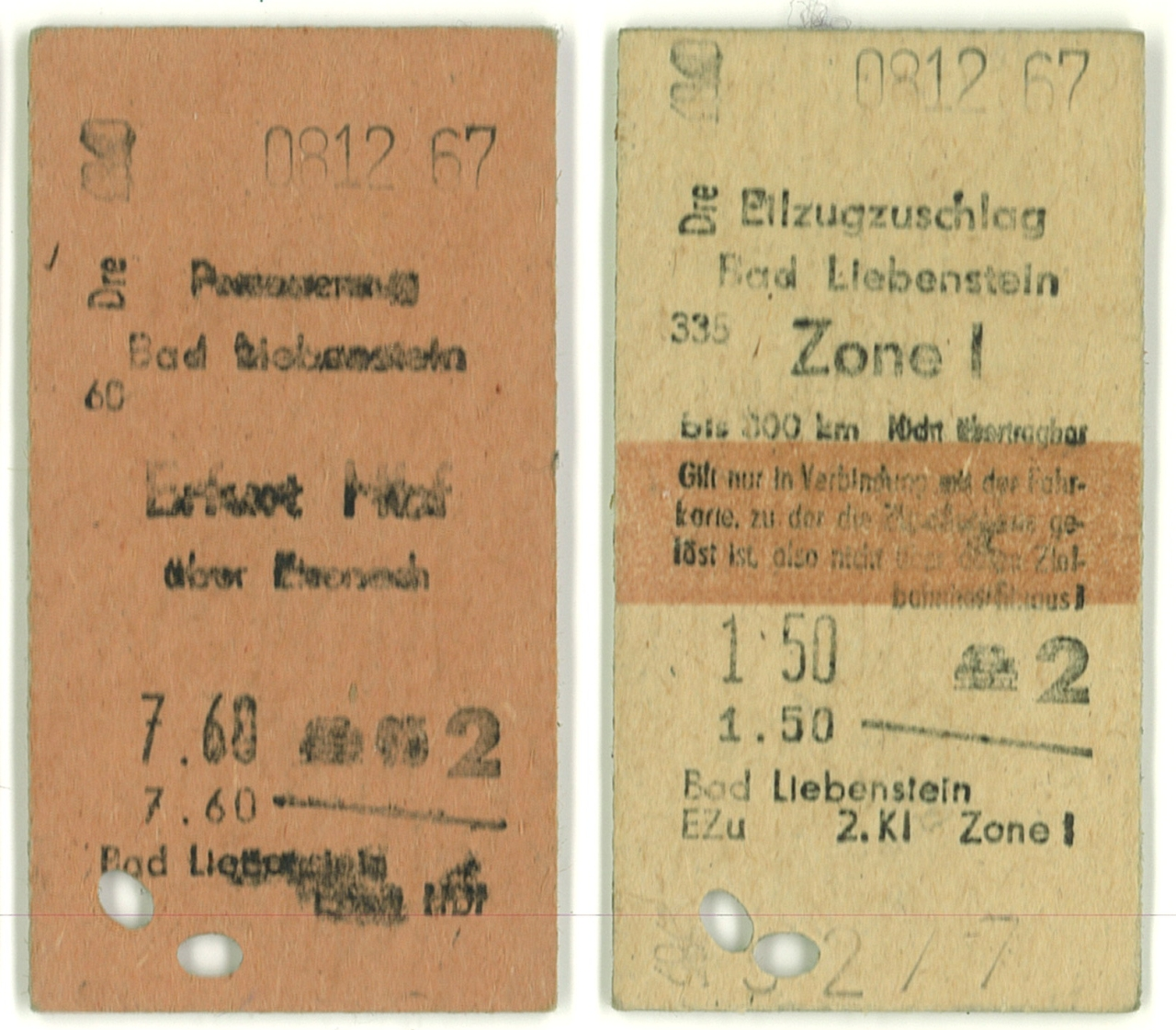 Ticket for a express train from Bad Liebenstein to Erfurt (main station) via Eisenach on 8 December 1967